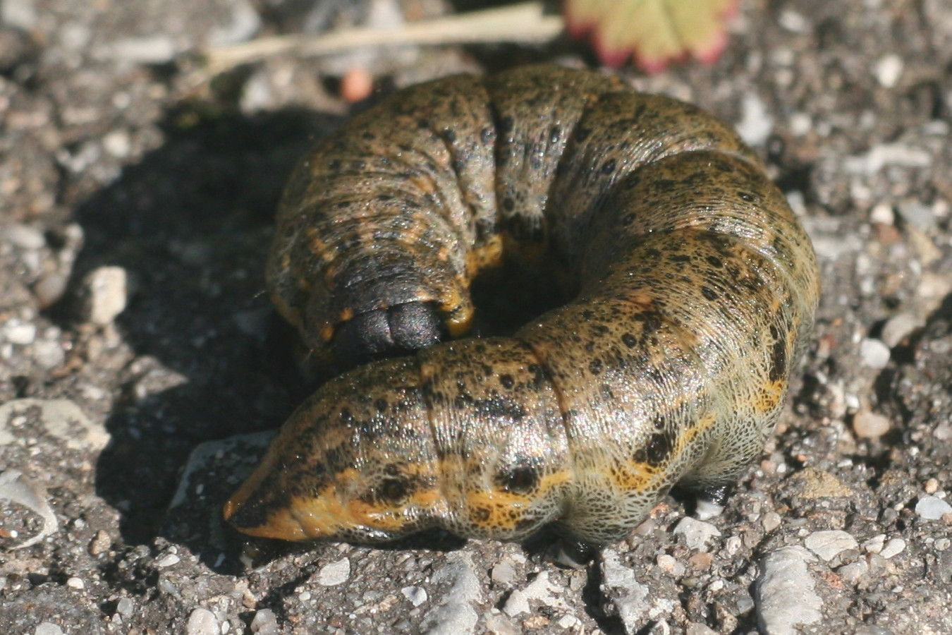 A caterpillar of the Shark moth (Cucullia umbratica), photographed in Weinsberg on a path between a forest and a vineyard